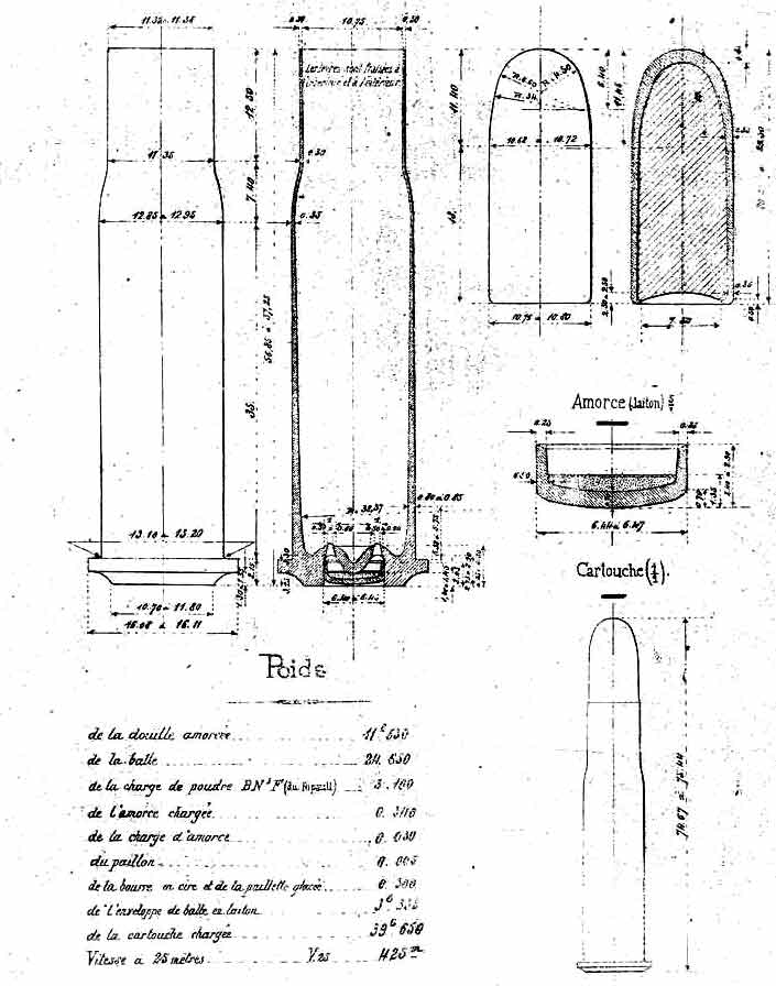 10.67 mm Berdan#2 catridge